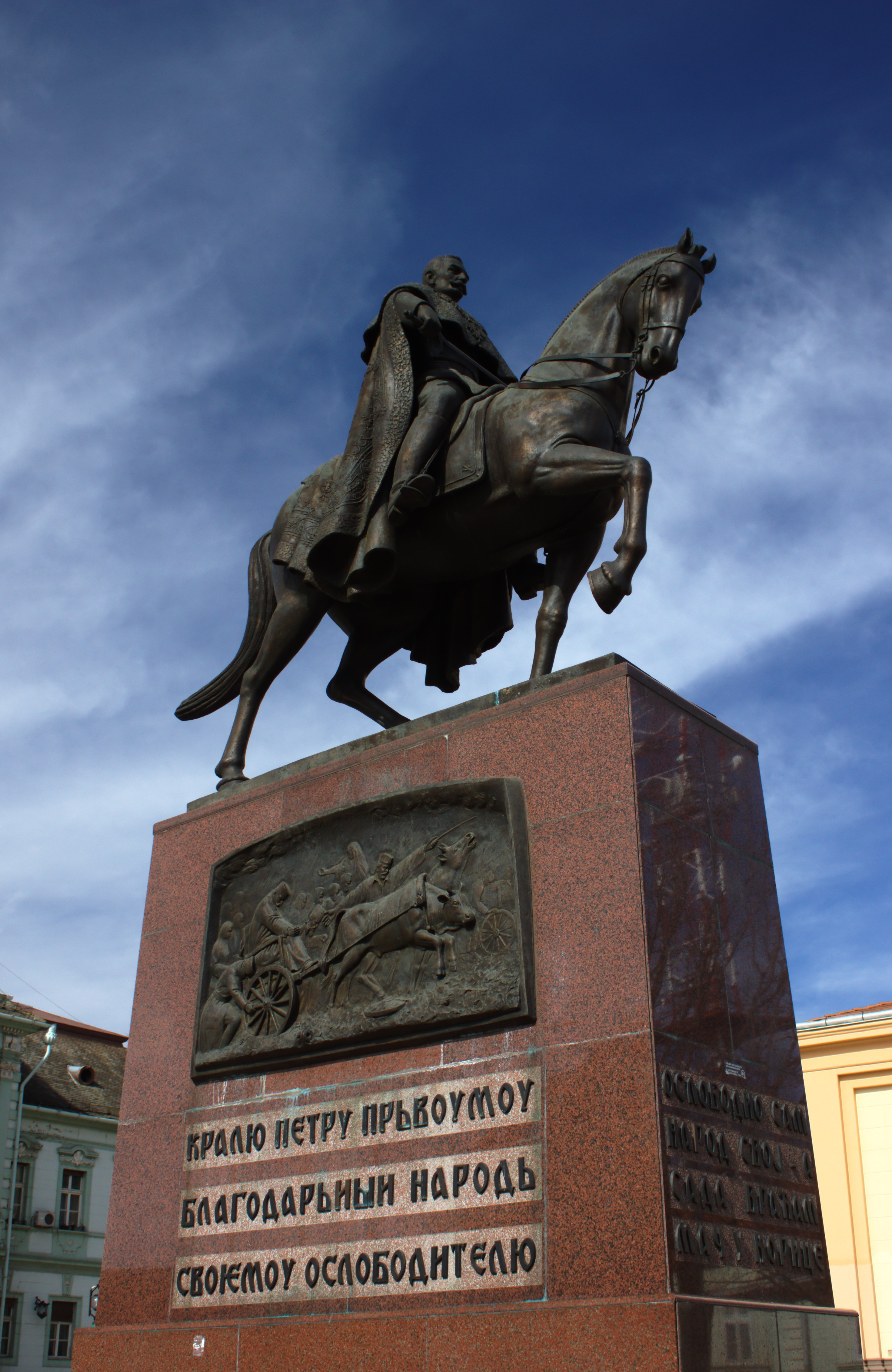 The statue of the king of Peter I. Karađorđević at Trg Slobode square in Zrenjanin, Serbia